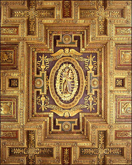 ceiling of Santa Maria in Aracoeli, Rome.